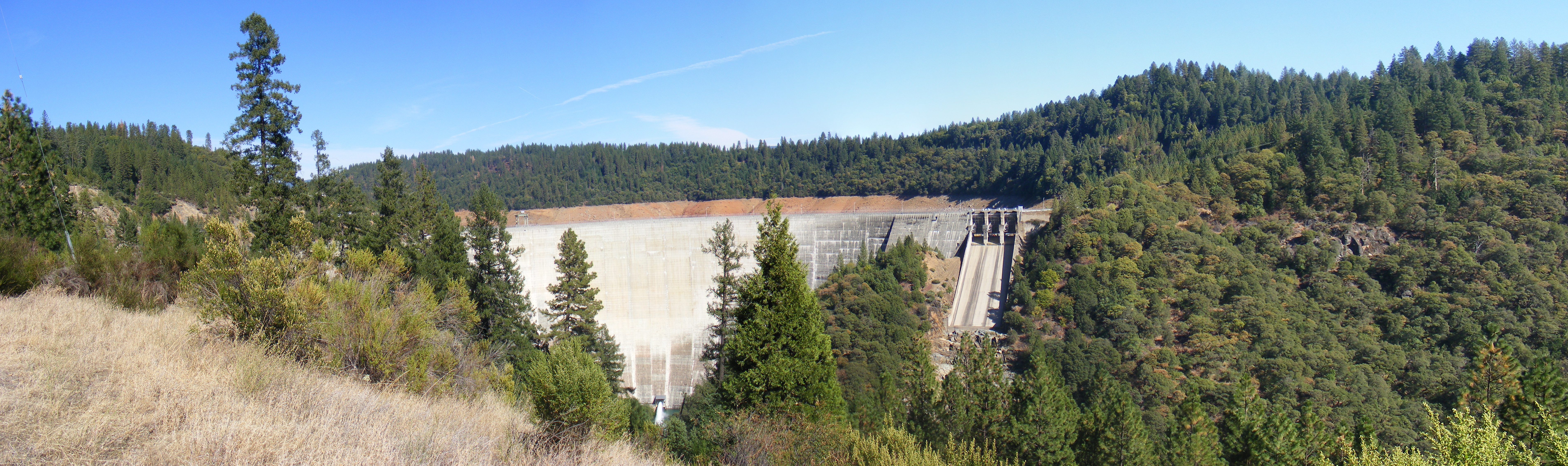 Bullards Bar dam. Panorama in 5 pictures. Stitched with Adobe Photo merge.